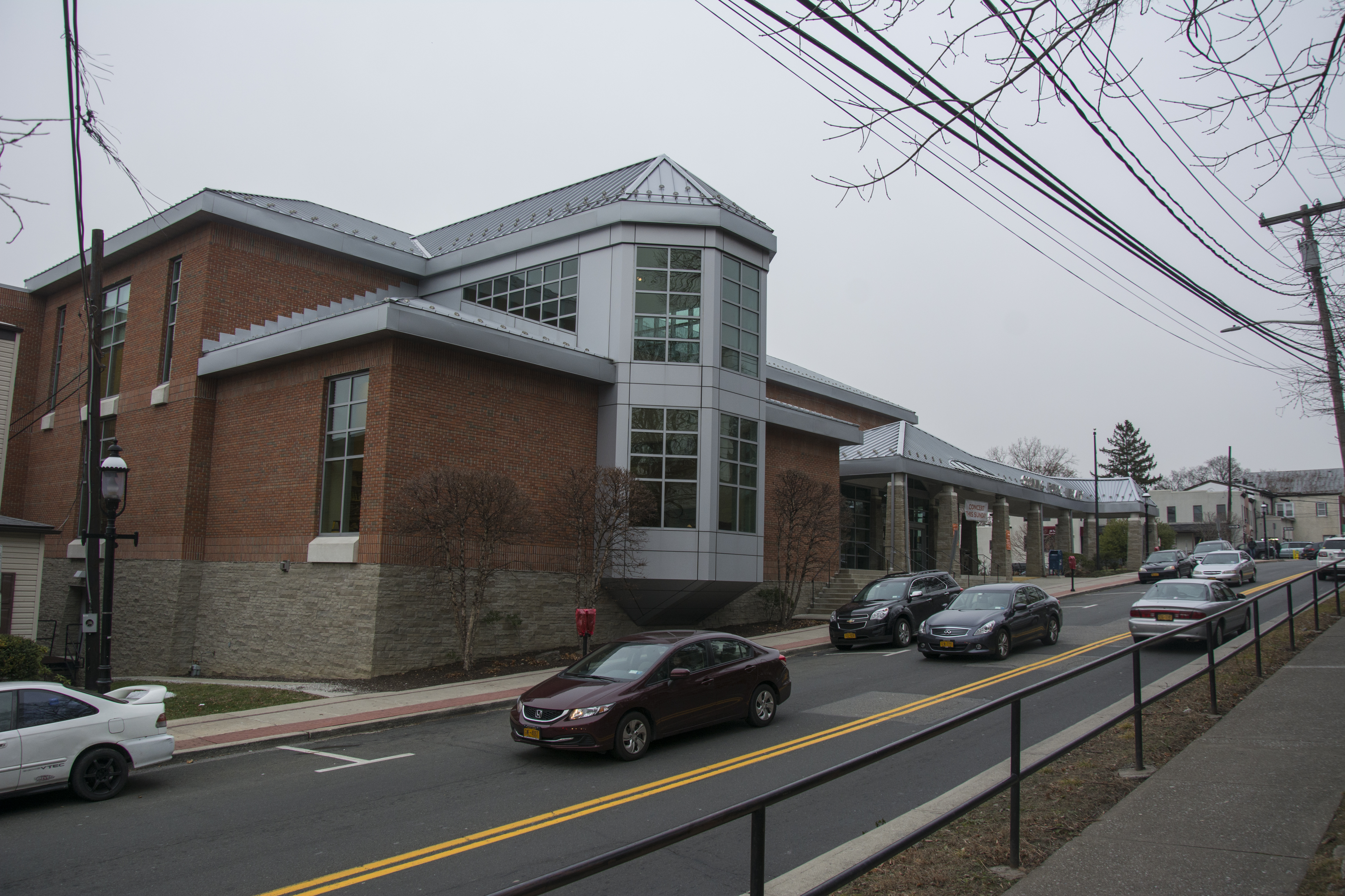 The Ossining Public Library, taken on the below date.